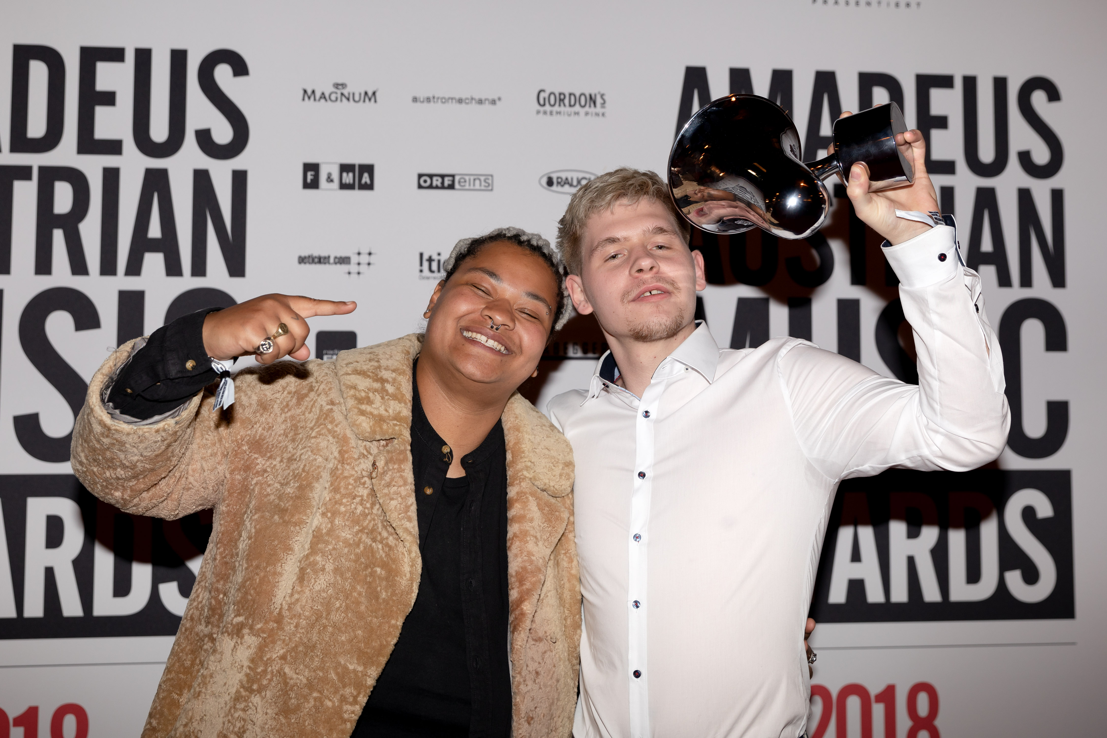 Melanie Ebietoma and Clemens Martinuzzi (MÖWE) at the Amadeus Austrian Music Award 2018 at Volkstheater in Vienna.